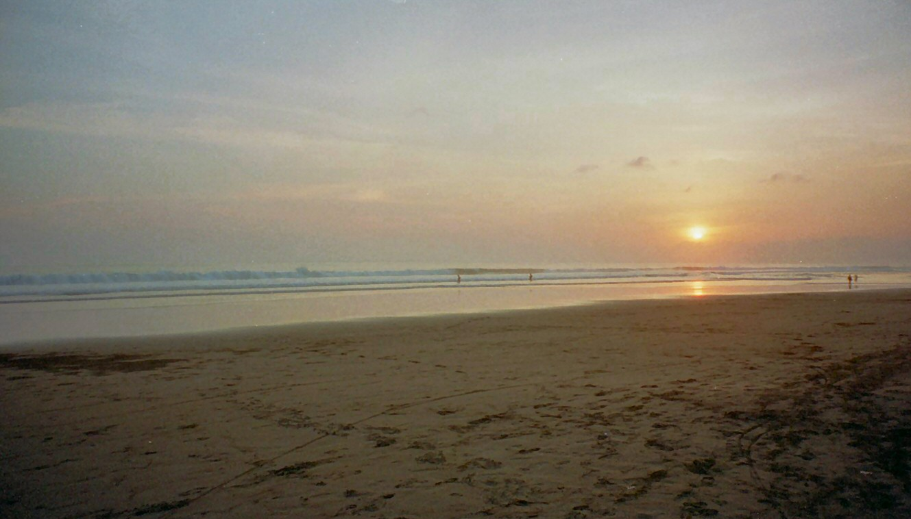 Sunset at the beach of Pangandaran Java island - Indonesia Picture taken by Hullie August 1997